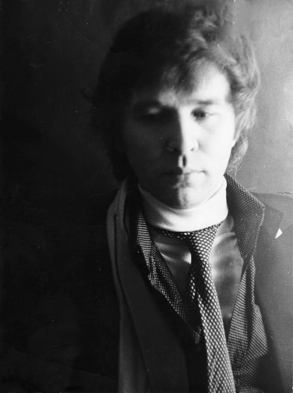 Slava Zaitsev